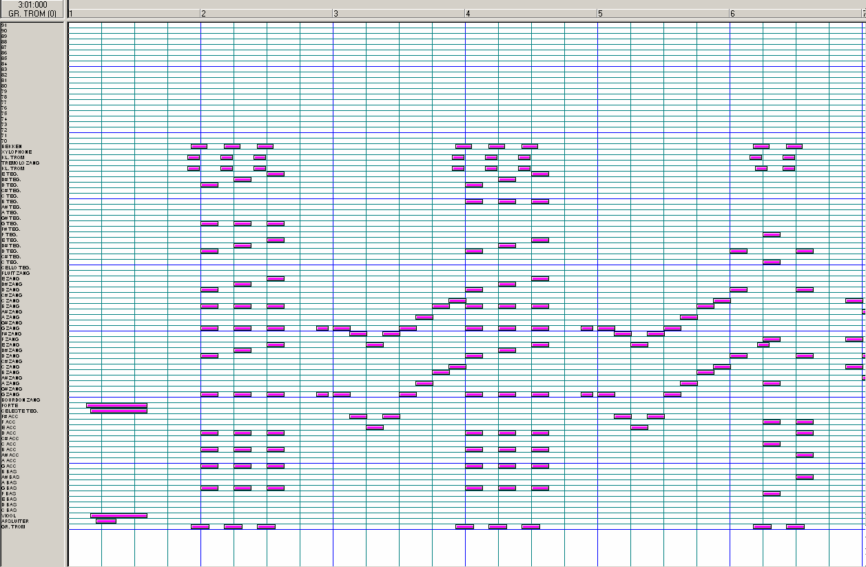 A computer representation of an mechanical organ control book, in this case an example of "Die Fledermaus Ouverture".